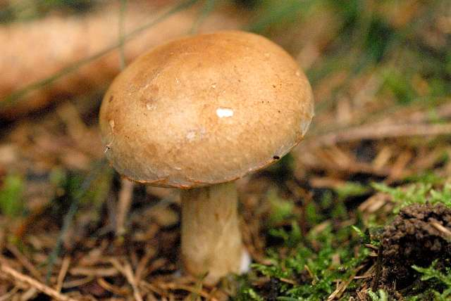 Cortinarius crassus from Commanster, Belgian High Ardennes .